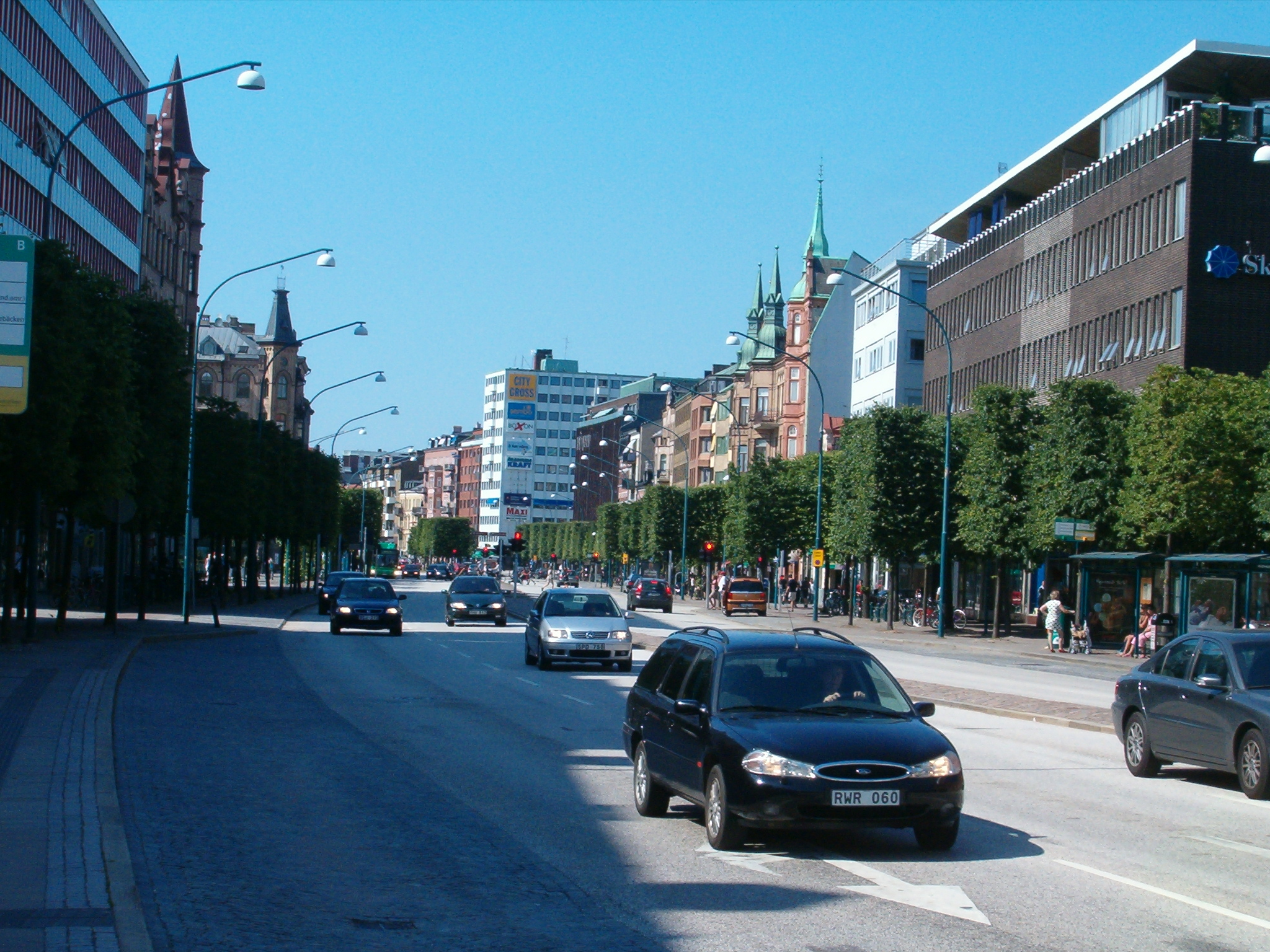 The street Drottninggatan in central Helsingborg, Sweden.